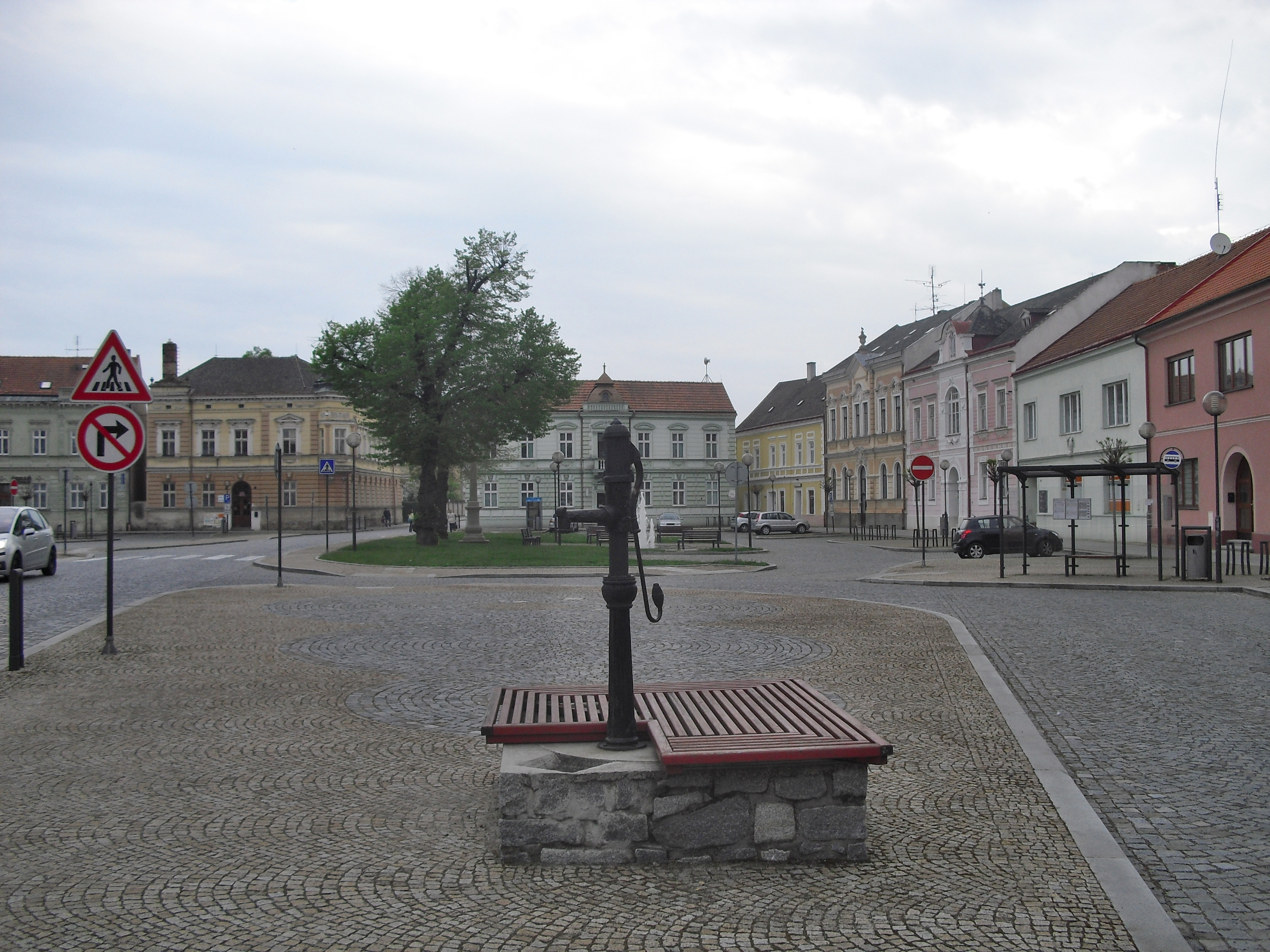 Uherský Ostroh, Uherské Hradiště District, Czech Republic. Náměstí Svatého Ondřeje square.